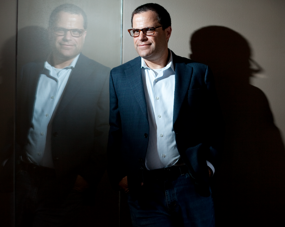 Health Economist Dana Goldman